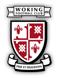 wokinglogo x